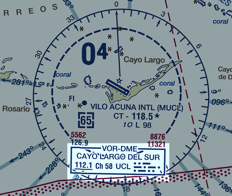 Crop from FAA Caribbean 1 VFR aeronautical chart showing Cayo Largo Del Sur VOR-DME